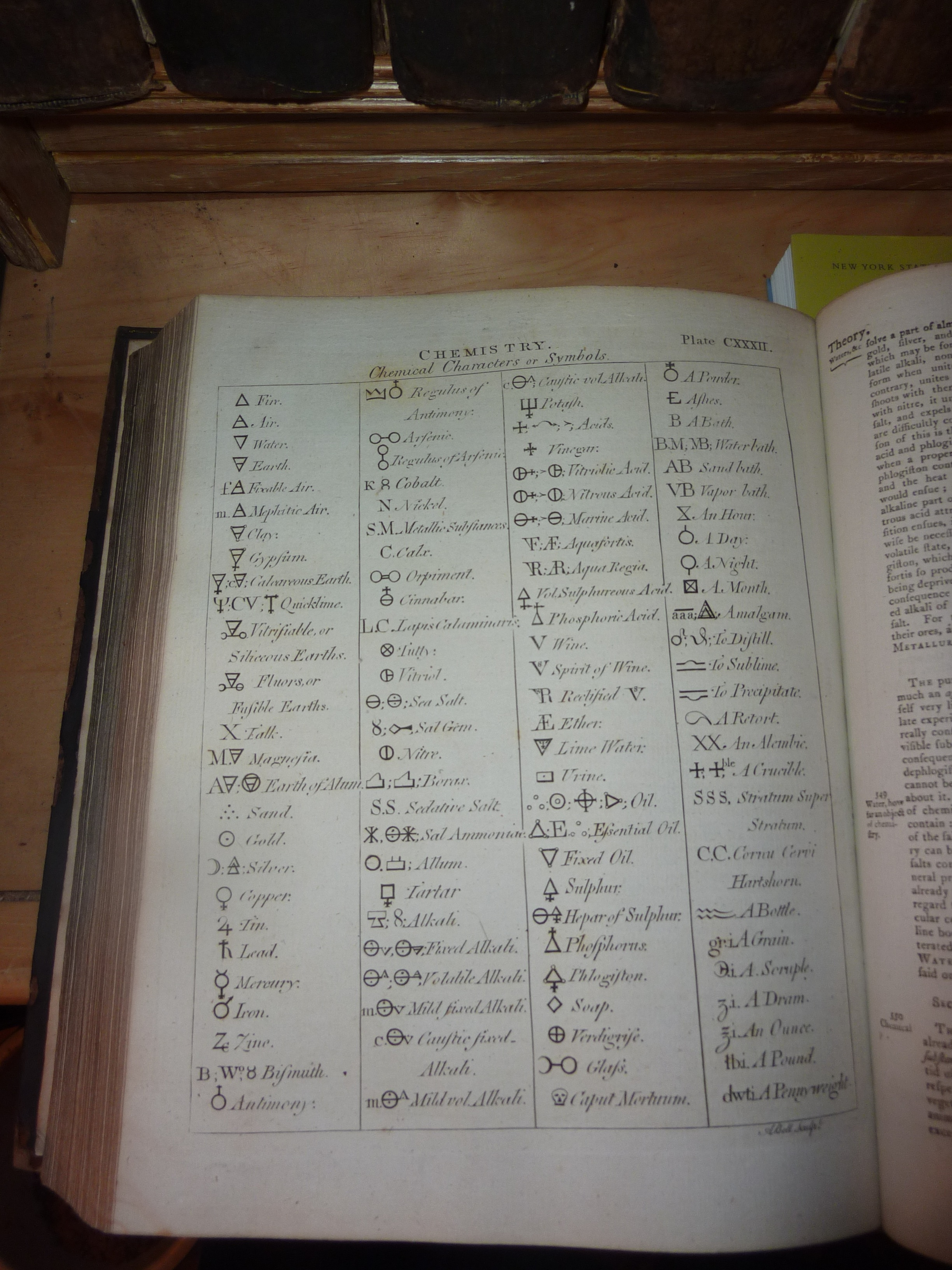 Chemical Symbols in 3rd edition of Britannica, 1797